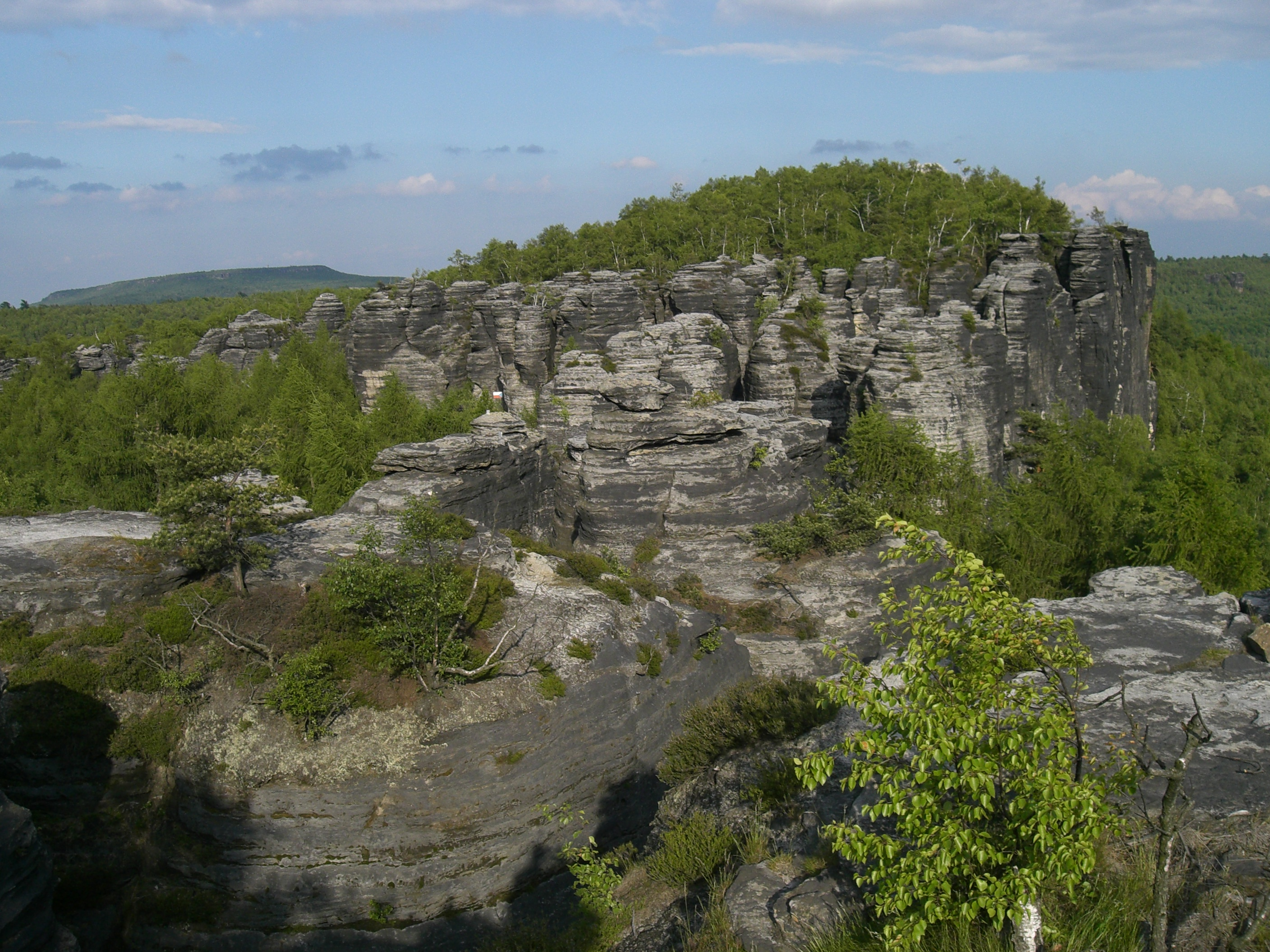 Labské pískovce - panorama, Czech Republic. Part Tiské stěny near Tisá village.